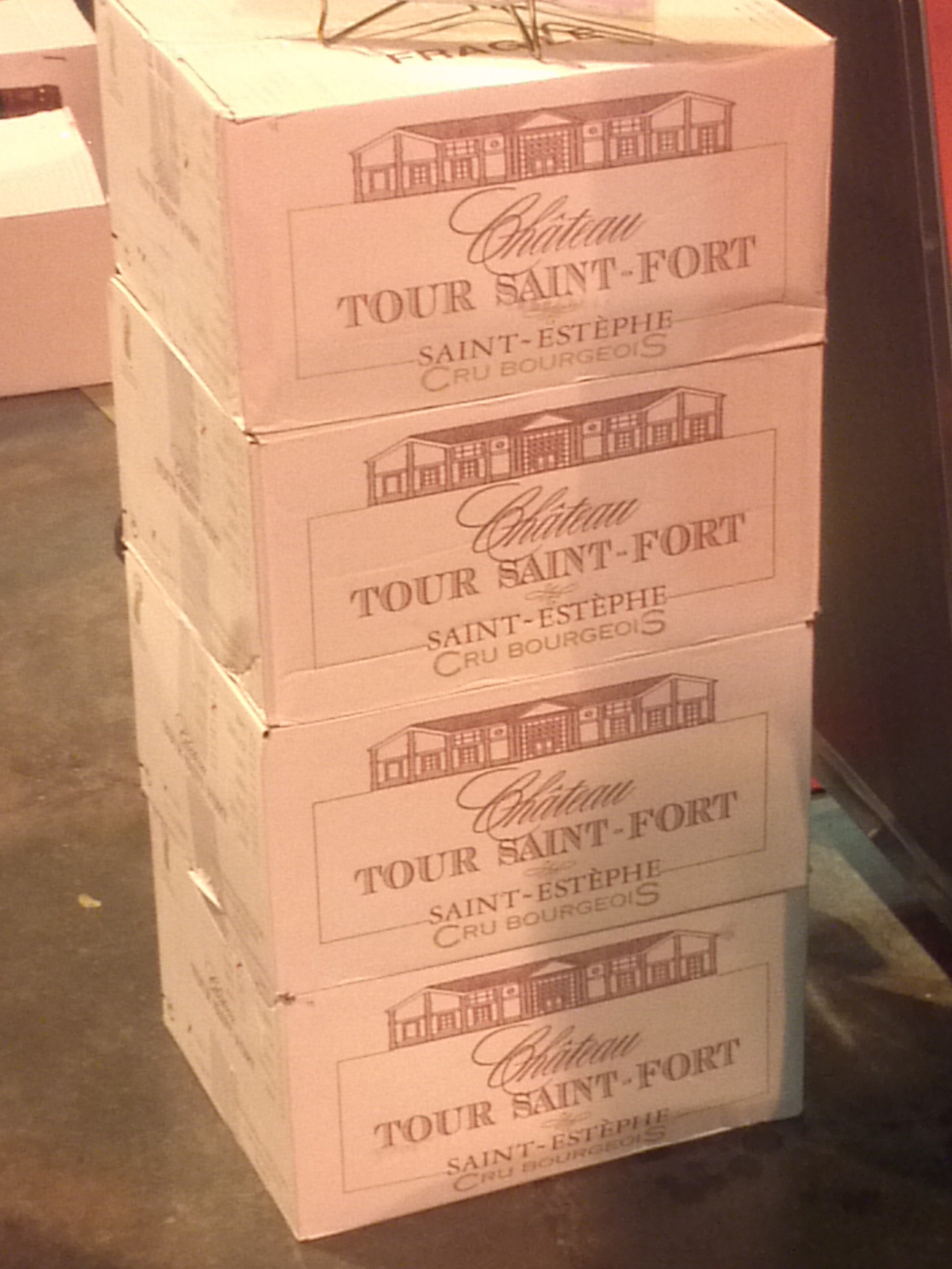 Wine boxes of Château Tour Saint-Fort, Saint-Estèphe, Cru Bourgeois on the Strasbourg Wine Fair 2012